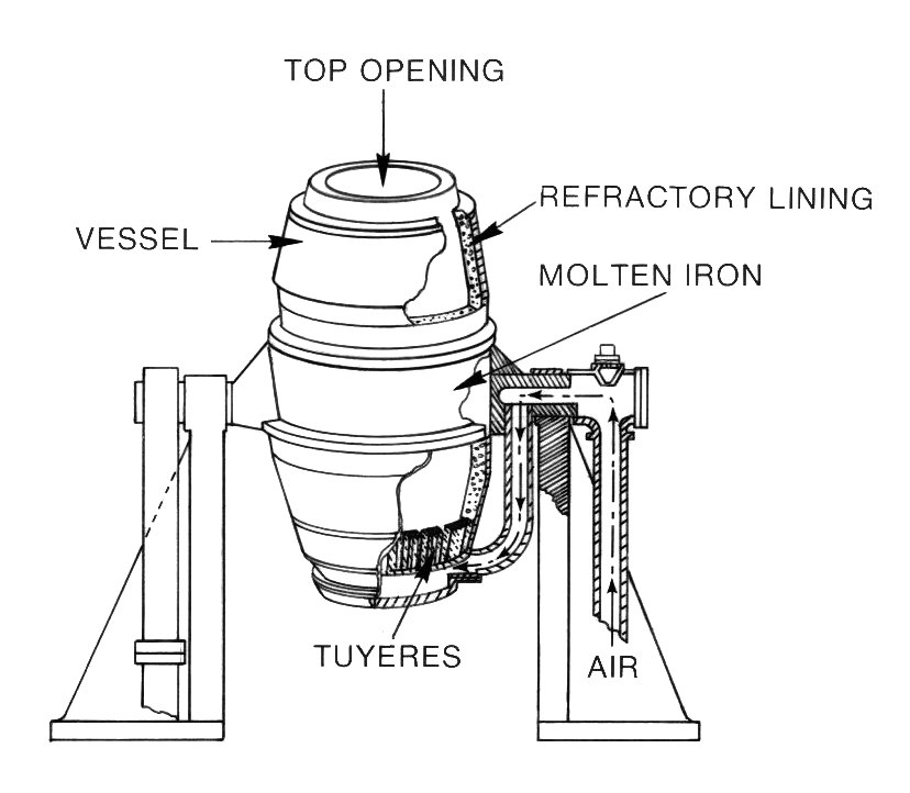 line art drawing